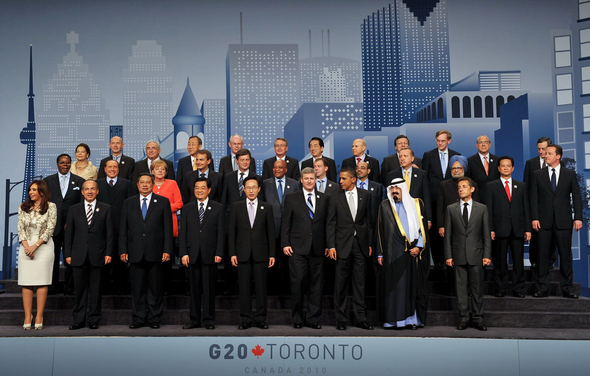 World leaders wave during their official photo call at the G-20 Summit on Sunday (Jun. 27).